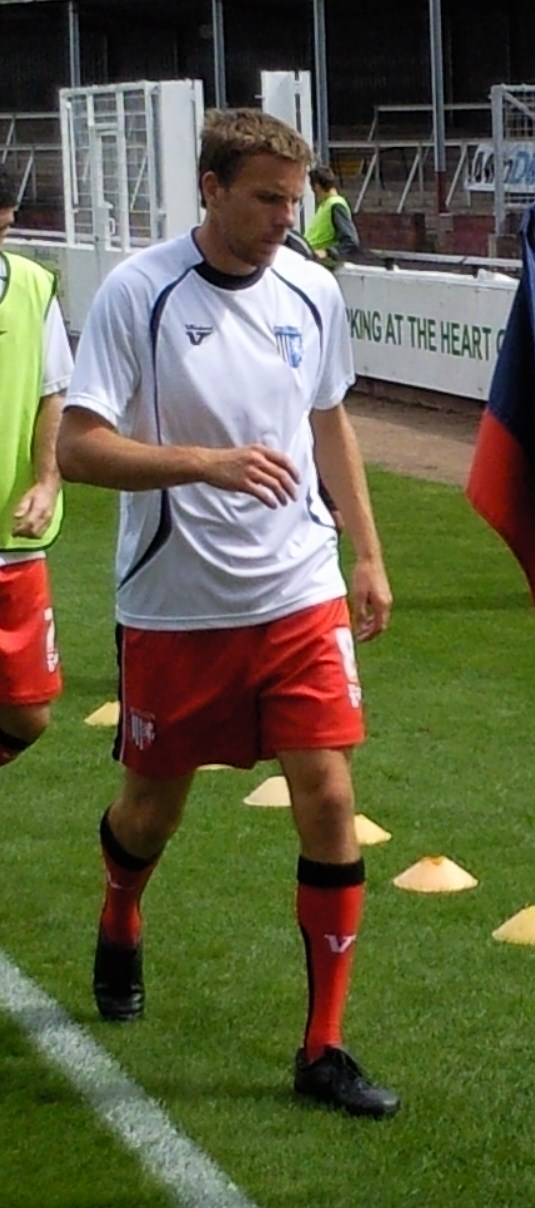 Mark Bentley, photographed on 14 August 2010